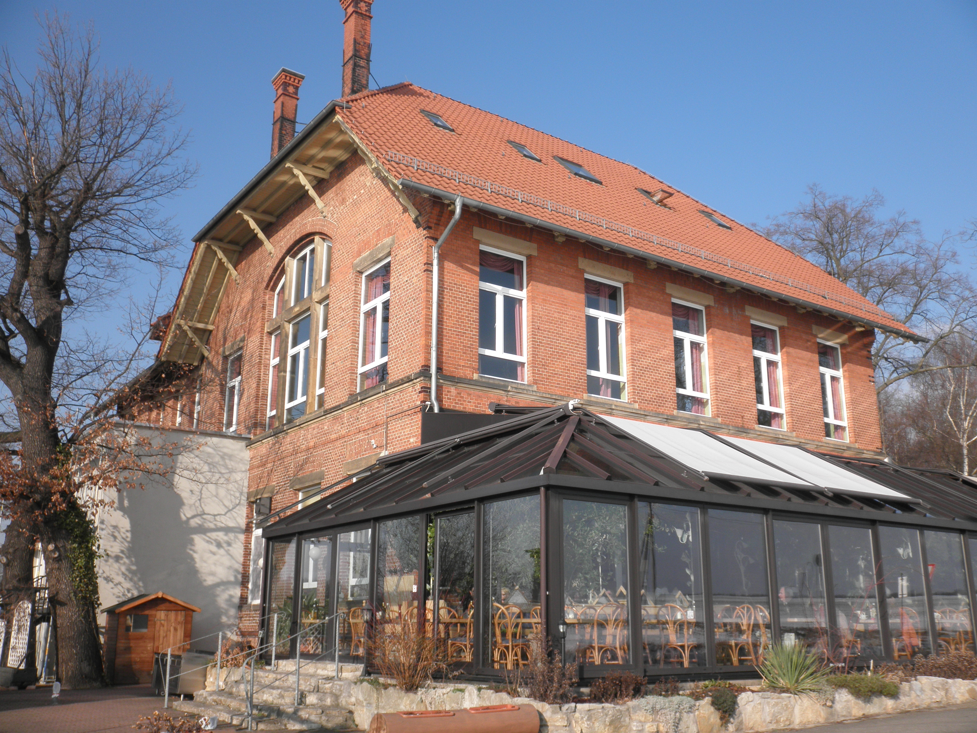 Waldhaus Rhoda in Steigerwald (Erfurt) in Thuringia